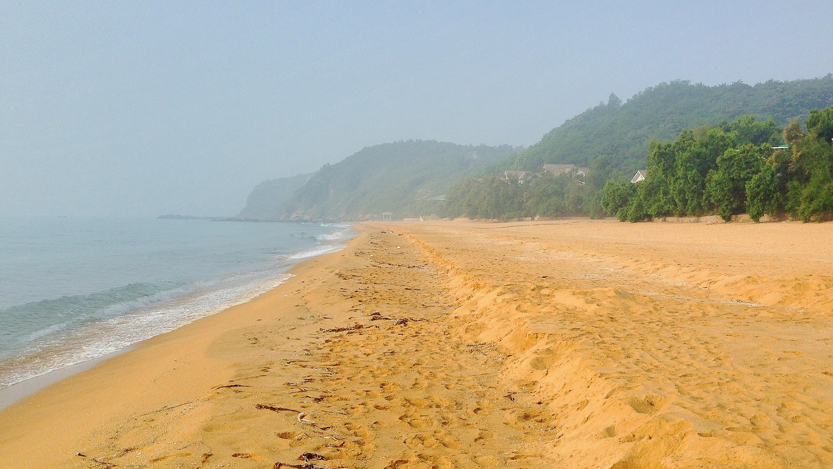 Very nice beach a few miles north of Hamhung.